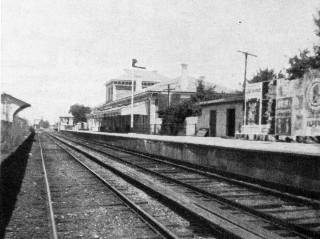 Riverton Railway Station, South Australia